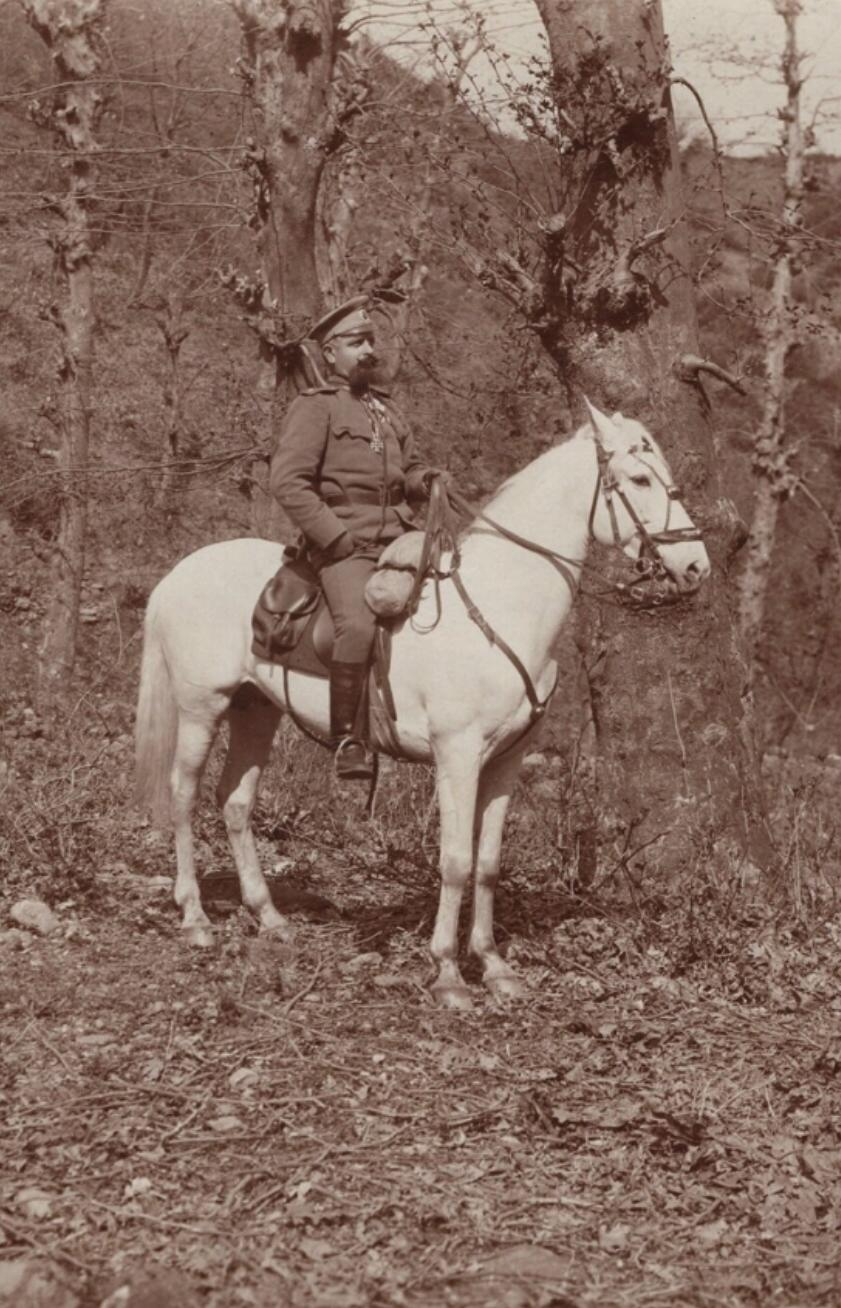 Krystyo Zlatarev general